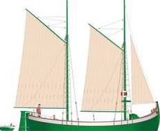 A double masted gaff rigged bracera from Istria, Croatia